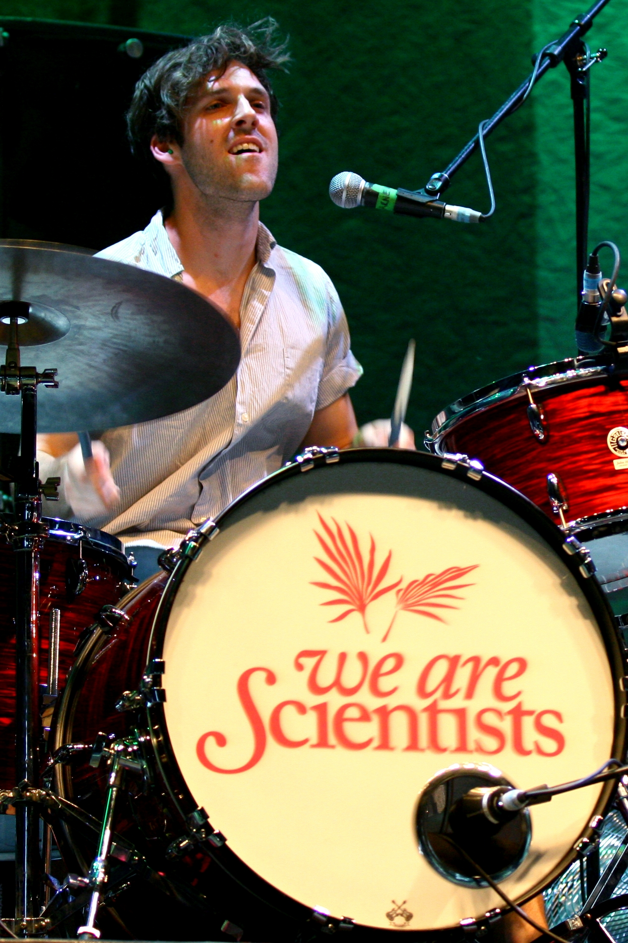 Andy Burrows, drummer of We Are Scientists, Rock im Park Festival 2014. Festivalsommer This photo was created with the support of donations to Wikimedia Deutschland in the context of the CPB project "Festival Summer".